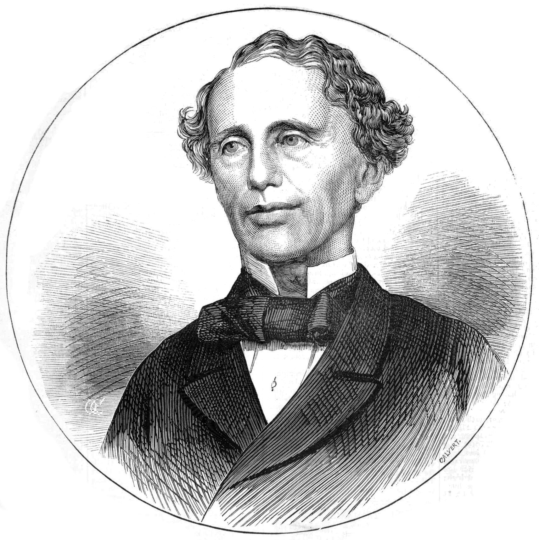 Portrait of Moses Wilson Gray (1813–1875)